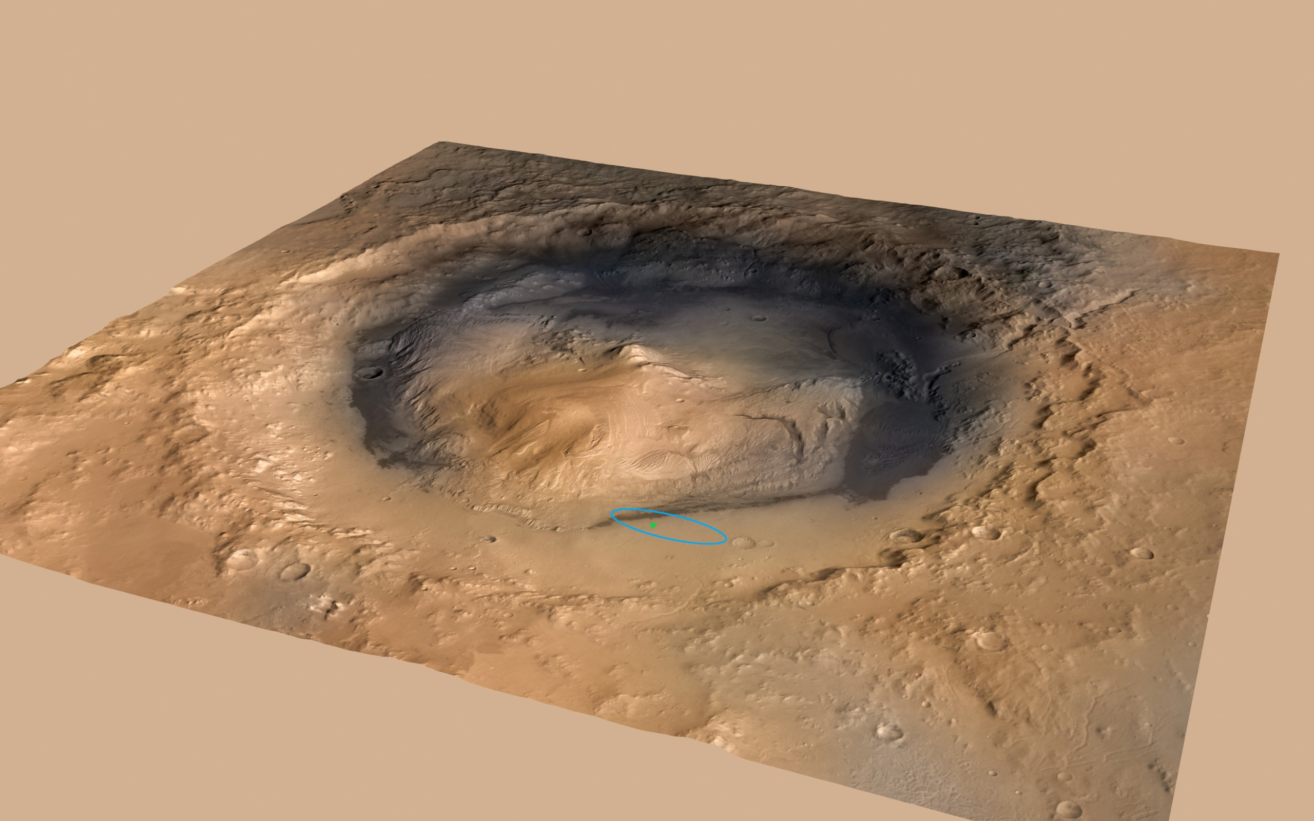 Curiosity Cradled by Gale Crater NASA's Curiosity rover landed in the Martian crater known as Gale Crater, which is approximately the size of Connecticut and Rhode Island combined. A green dot shows where the rover landed, well within its targeted landing ellipse, outlined in blue. This oblique view of Gale, and Mount Sharp in the center, is derived from a combination of elevation and imaging data from three Mars orbiters. The view is looking toward the southeast. Mount Sharp rises about 3.4 miles (5.5 kilometers) above the floor of Gale Crater. The image combines elevation data from the High Resolution Stereo Camera on the European Space Agency's Mars Express orbiter, image data from the Context Camera on NASA's Mars Reconnaissance Orbiter, and color information from Viking Orbiter imagery. There is no vertical exaggeration in the image.